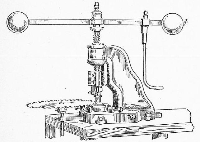 Fly press, here being used to adjust set in saw blade teeth during sharpening or 'saw doctoring' . Original caption: "Fig. 22.—Fly-Press for Punching and Gulleting Saw-blades"